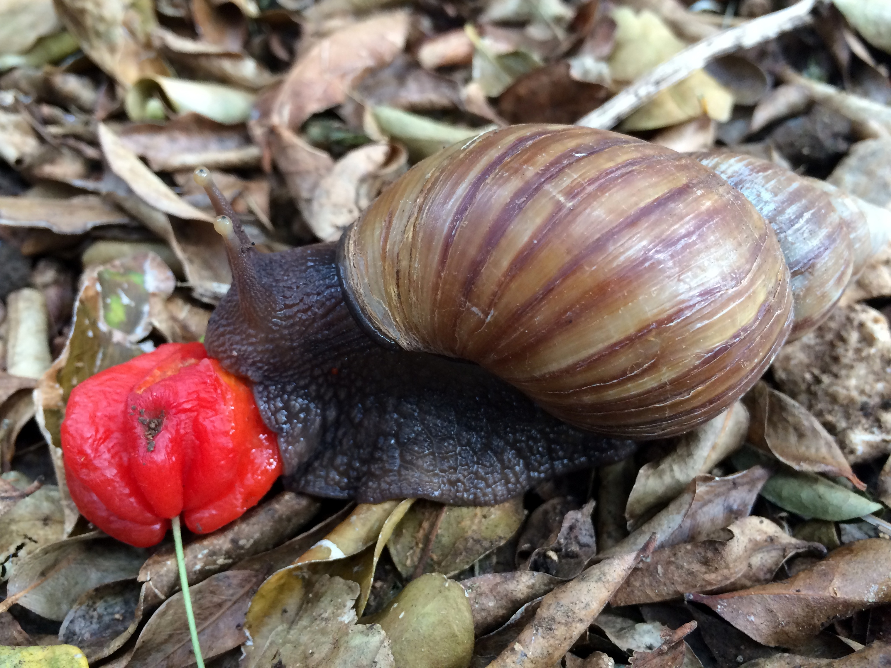 Giant African snail (Achatina fulica) feeding on a Surinam cherry (Eugenia uniflora) The snail retracted its eyes somewhat as it was approached with the camera.